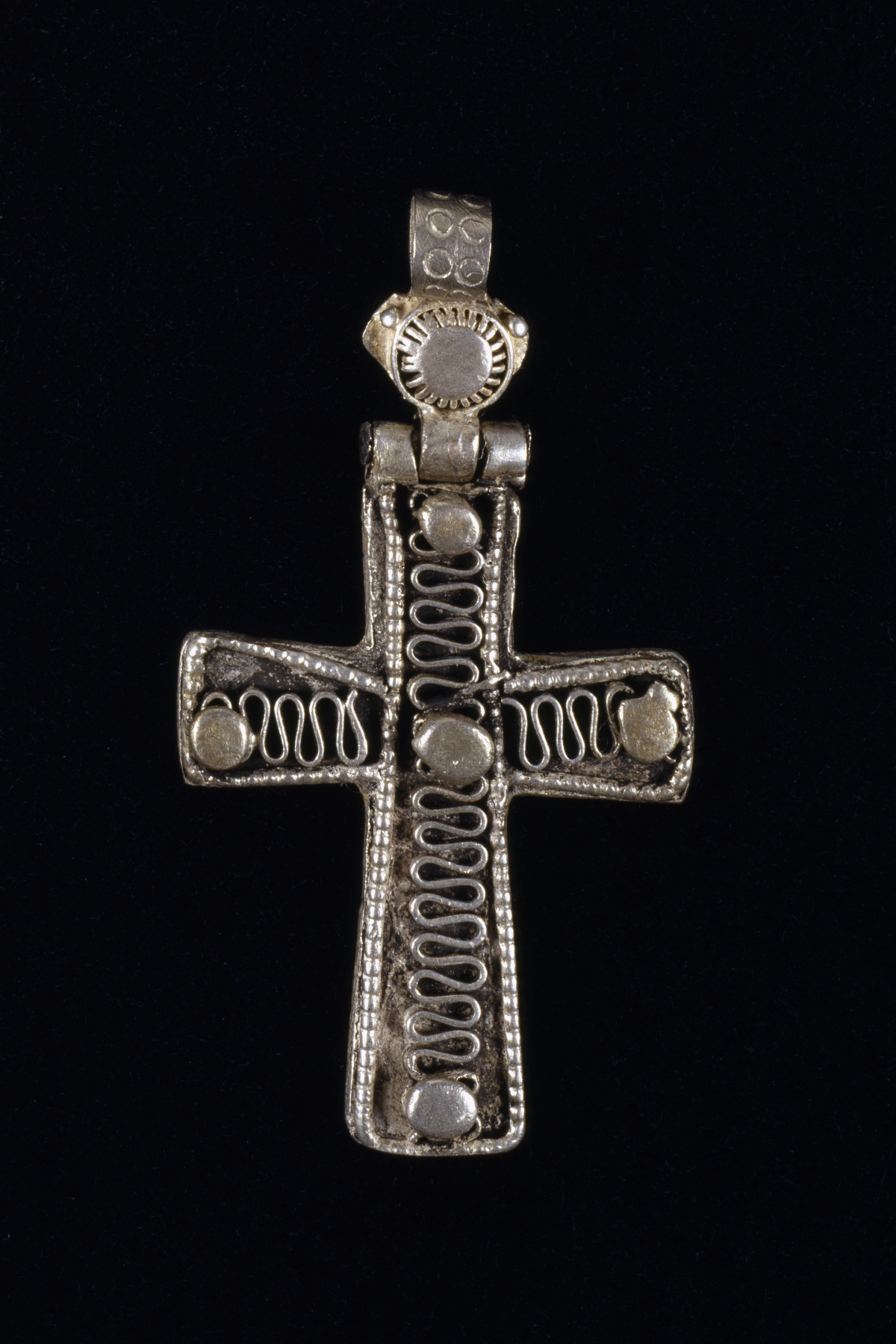 Pendant crosses show the inventiveness of Ethiopian metalworkers in embellishing the simple form of the cross with a rich variety of designs. Worn around the neck by the faithful to ward off evil, these small crosses could be made of braided leather, carved wood, or cast metal.